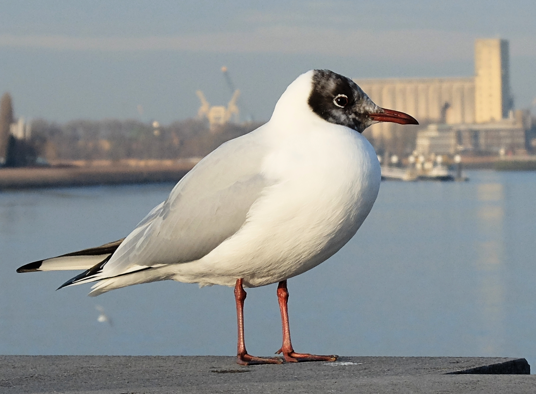 Black-headed gull in the port of Antwerp (shot taken at approximately 1 meter)